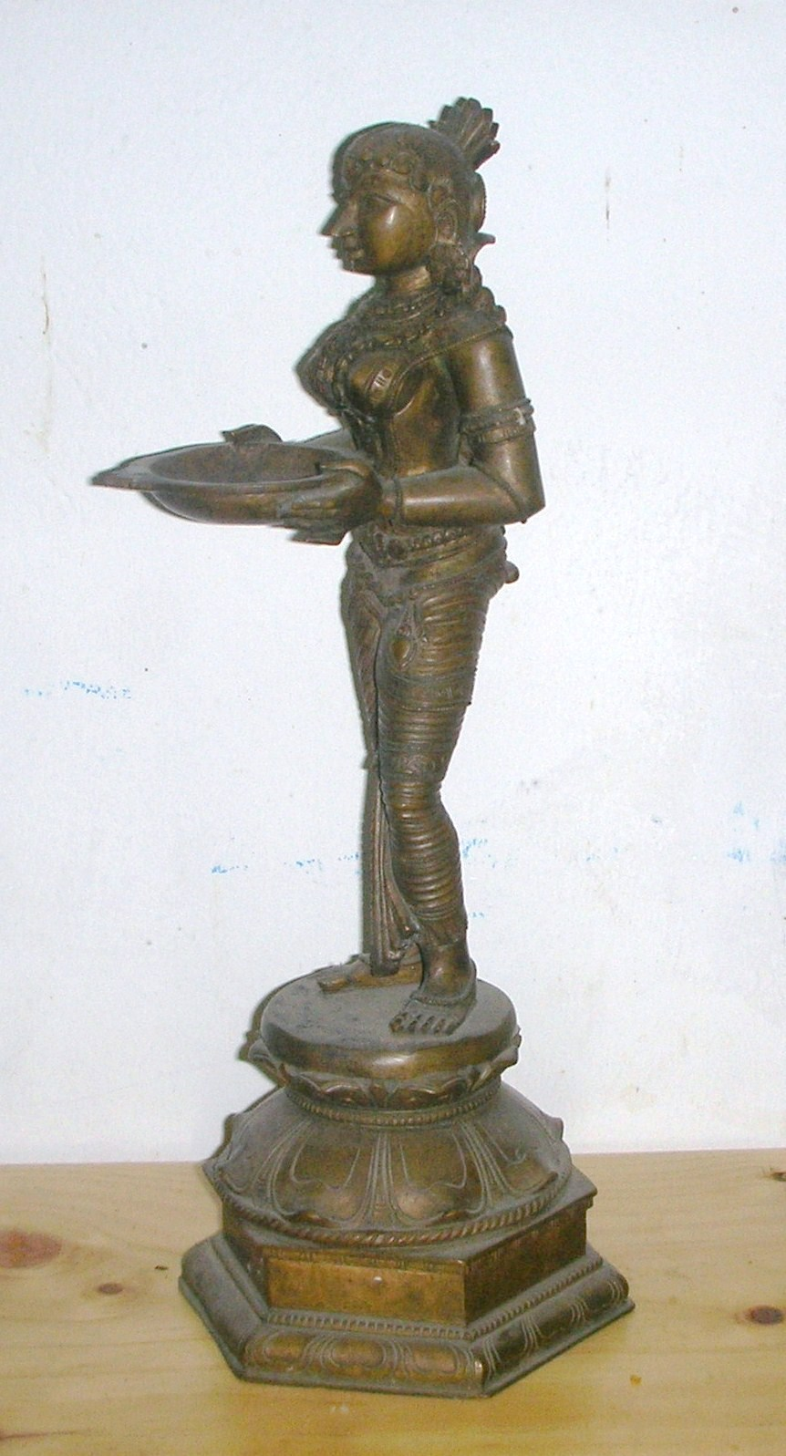 Paavai vilakku. Anthropomorphic oil lamp from Tamil Nadu